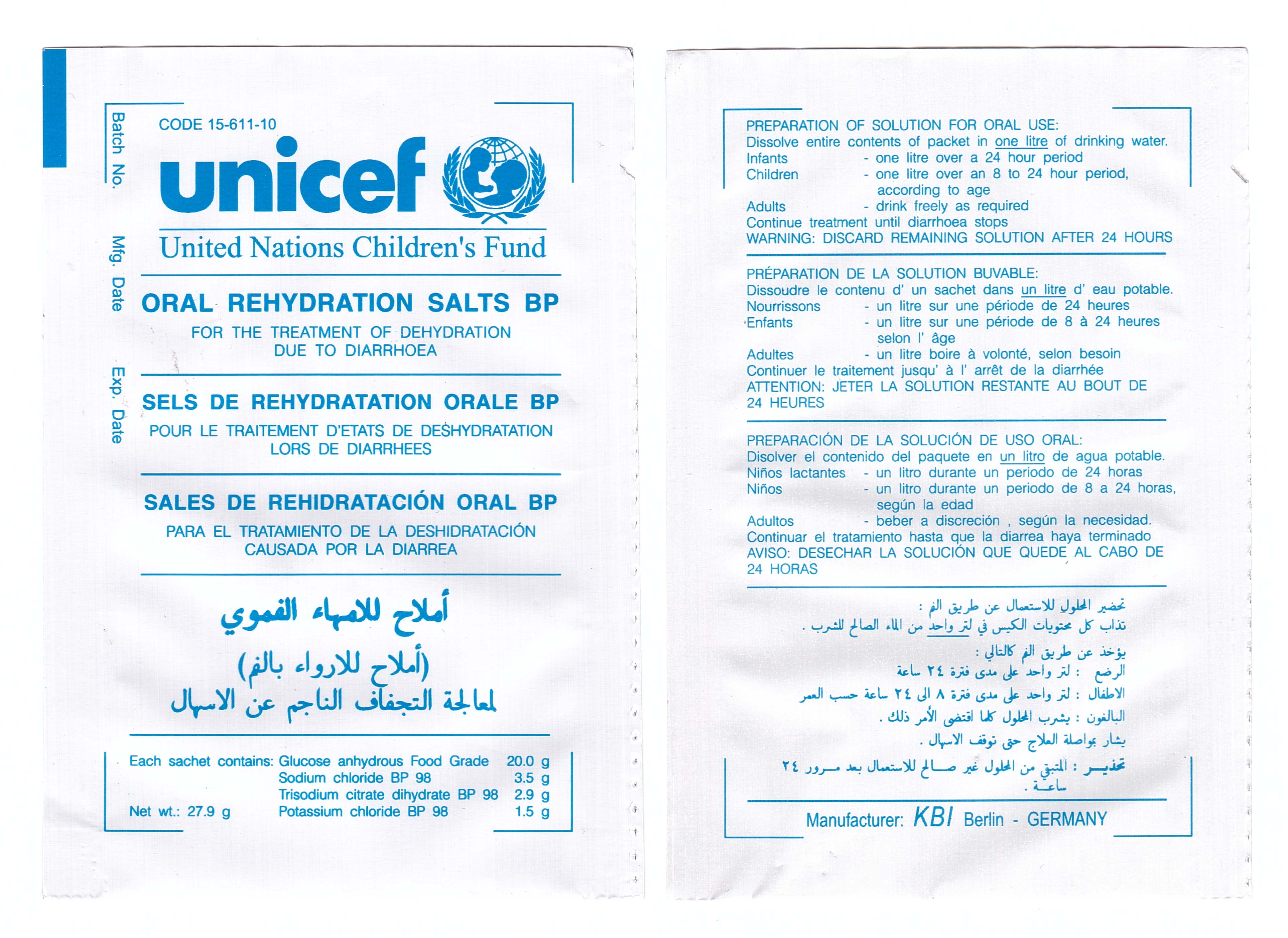 UNICEF-ORS bag including instructions in arabic language.